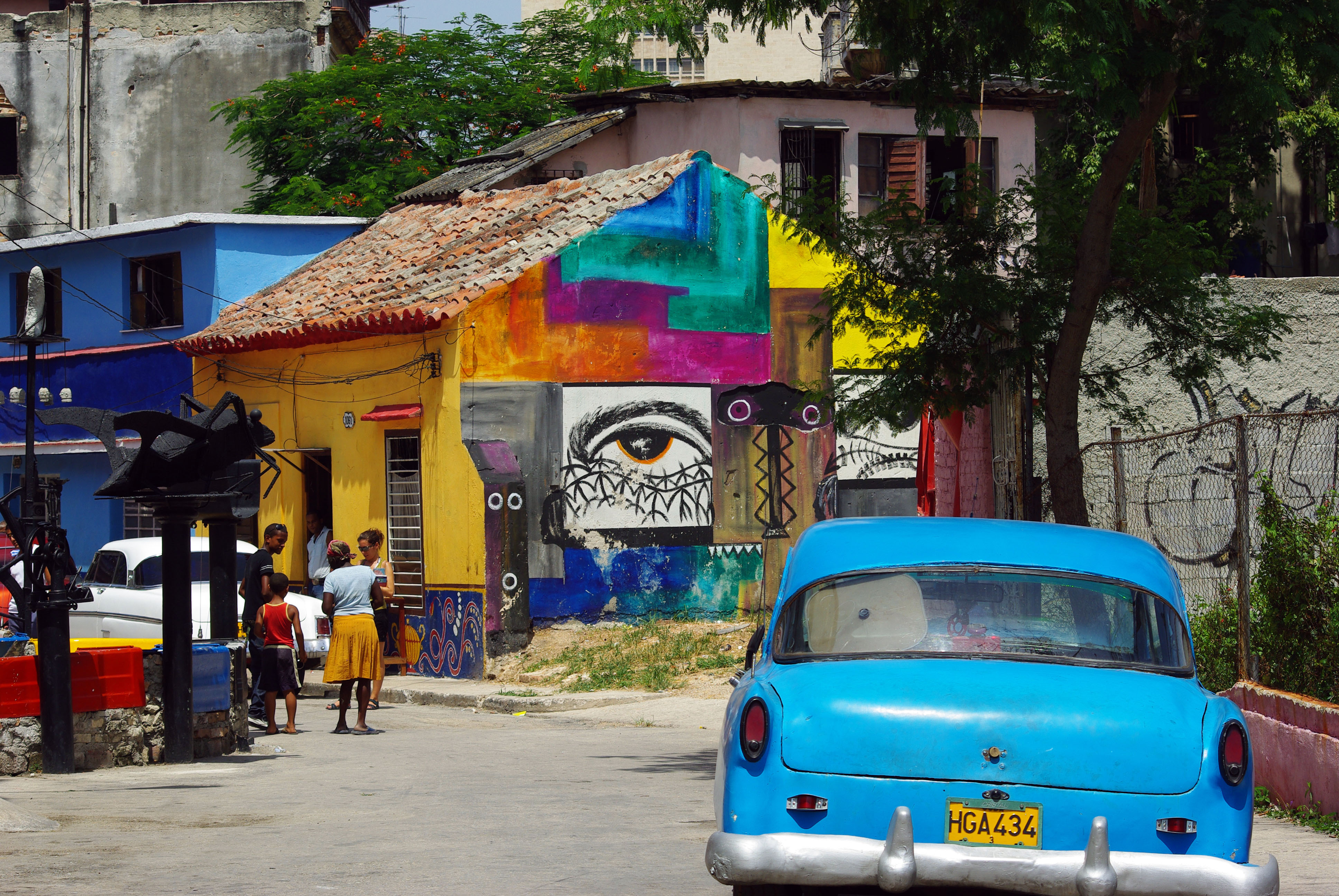 Callejon de Hamel colored street in Havana